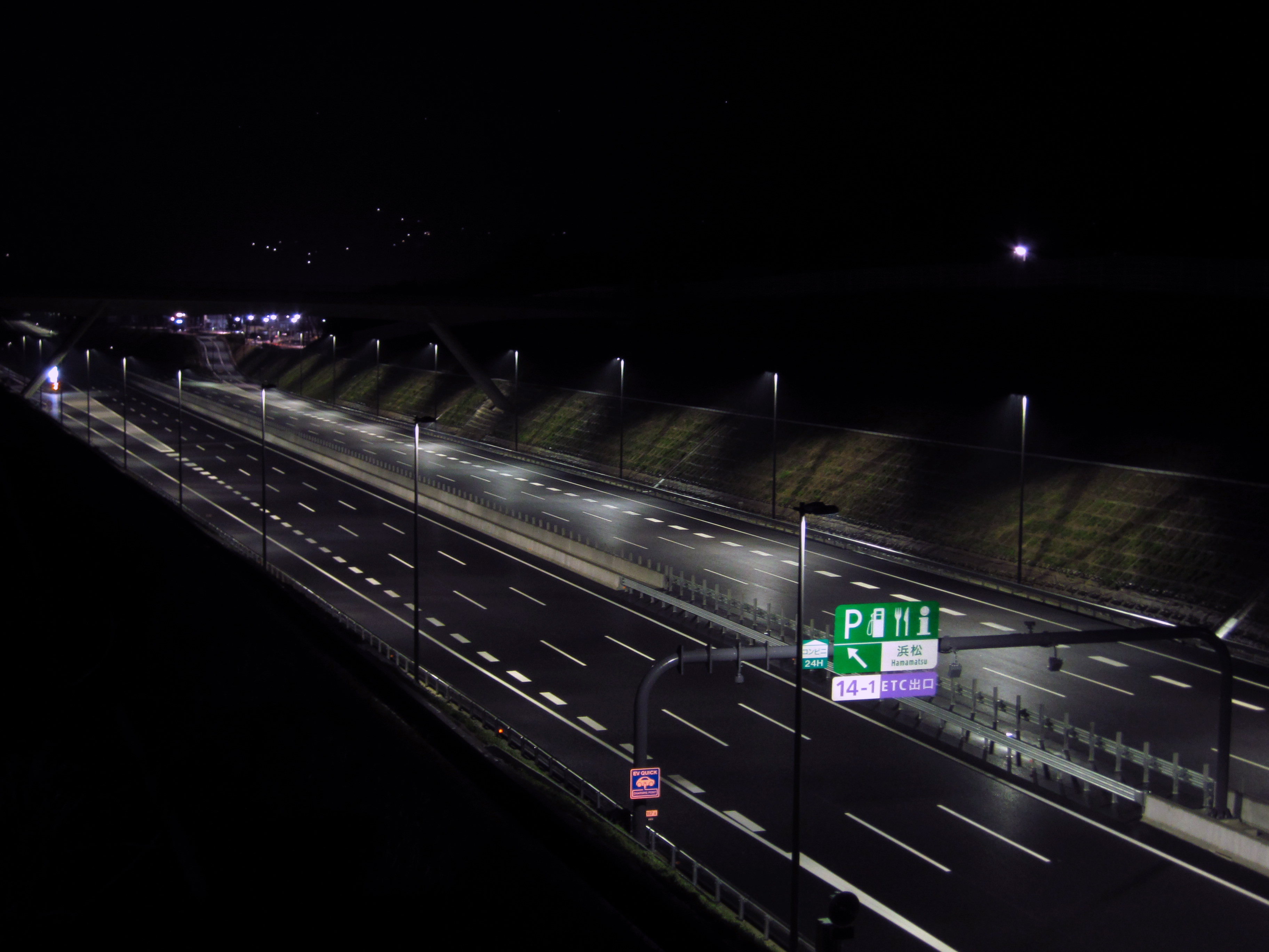 Hamamatsu Service Area on the Shin-Tomei Expressway prior to its opening